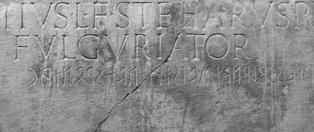 Lucius Cafatius, son of Lucius, of the Stellatina, Haruspex, Fulguriator. Etruscan: CAFFATES.L(a)R(th).L(a)R(is).NETŚVIS.TRVTNUT.FRONTAC